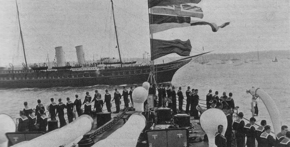 The HMY Victoria and Albert (launched 1899) at Spithead.